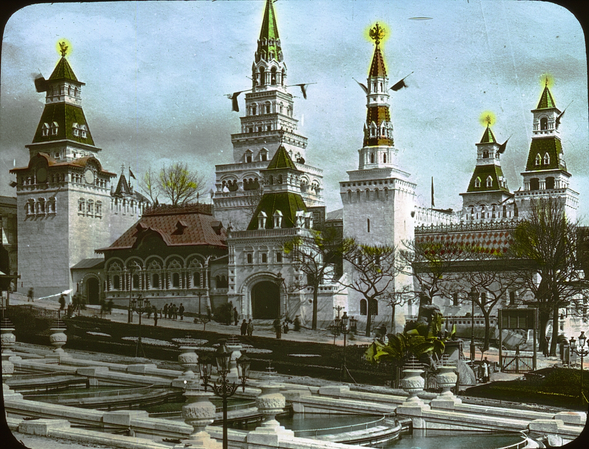 Original description: Paris Exposition: Russian Pavilion, Paris, France, 1900. The National Pavilion of Russia. It is within the Trocadero Gardens Brooklyn Museum Archives. - Extra information: This is not the national pavilon of Russia which was located in the section Pavillons des Puissances étrangères but the Pavillon de l'Asie russe et de la Sibérie by Robert Meltzer located in the section colonies étrangères, part of the "Exposition Coloniale" held in the Gardens of the ancient Palace of Trocadero.